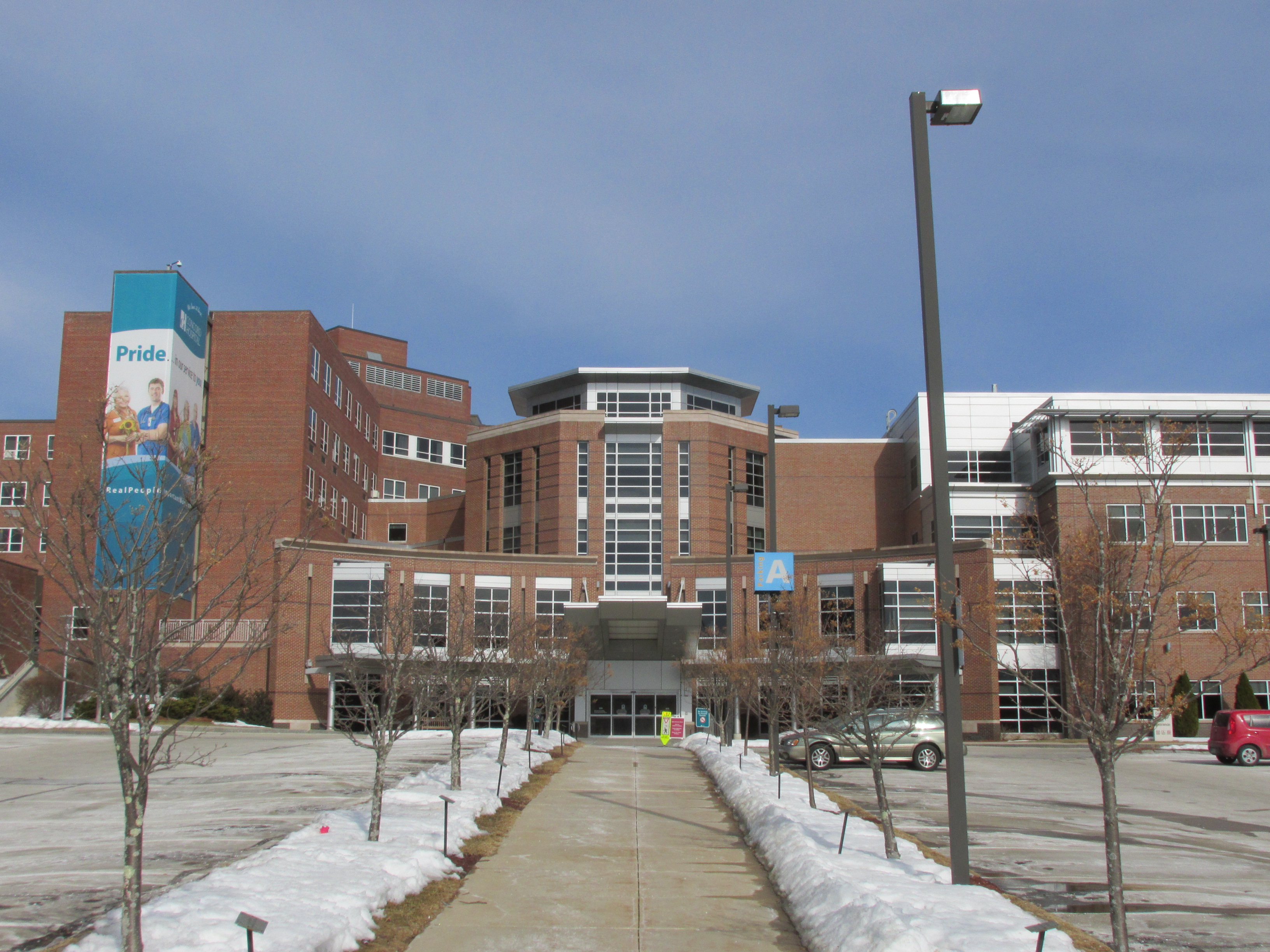 Concord Hospital, Concord New Hampshire - 2014